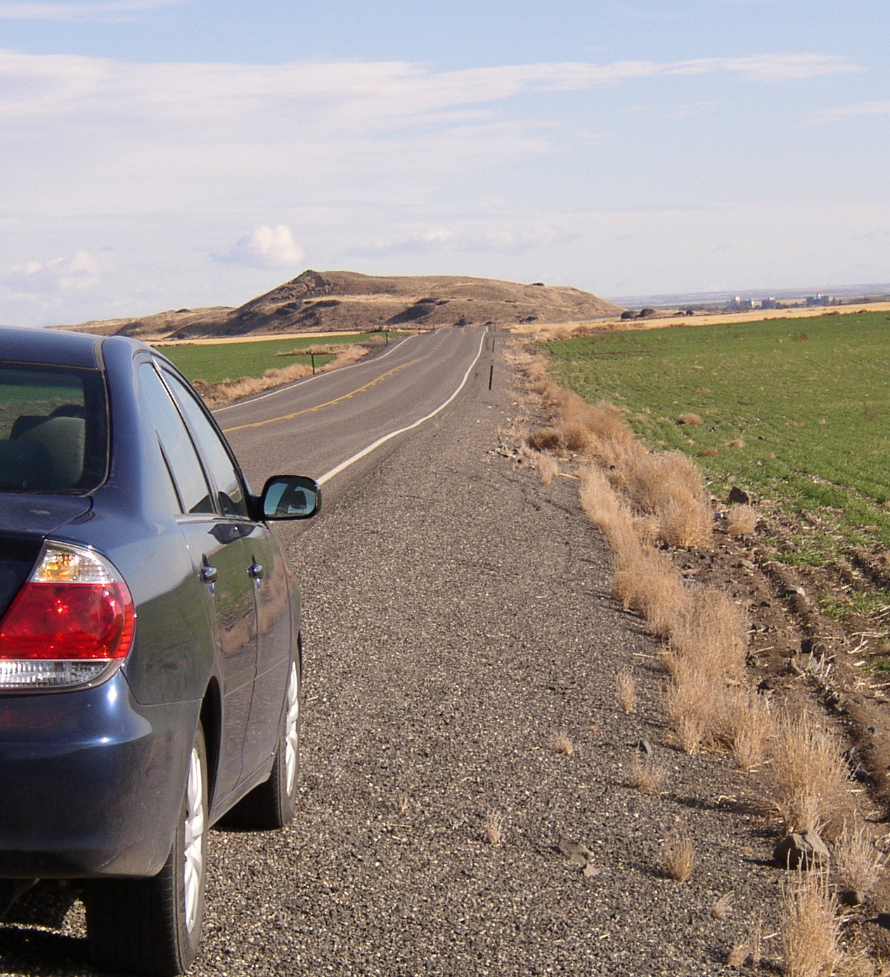 Photo of glacially created drumlin on the Waterville Plateau in Washington. For inclusion in the Withrow Moraine and Jameson Lake Drumlin Field article. Photo taken in November 2006 by uploader. Williamborg 01:16, 20 November 2006 (UTC)